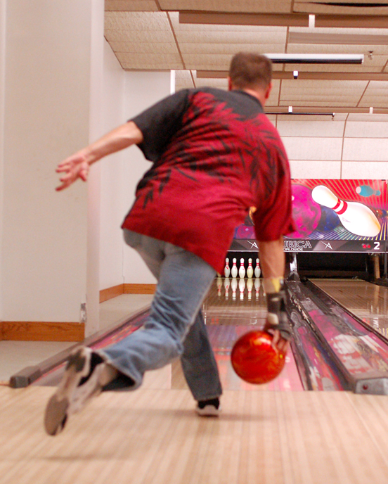 Photo by John Severns